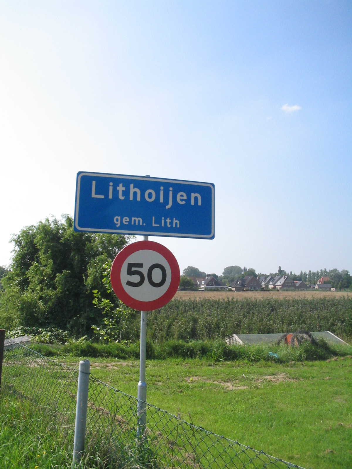 village Lith (Netherlands), august 2005